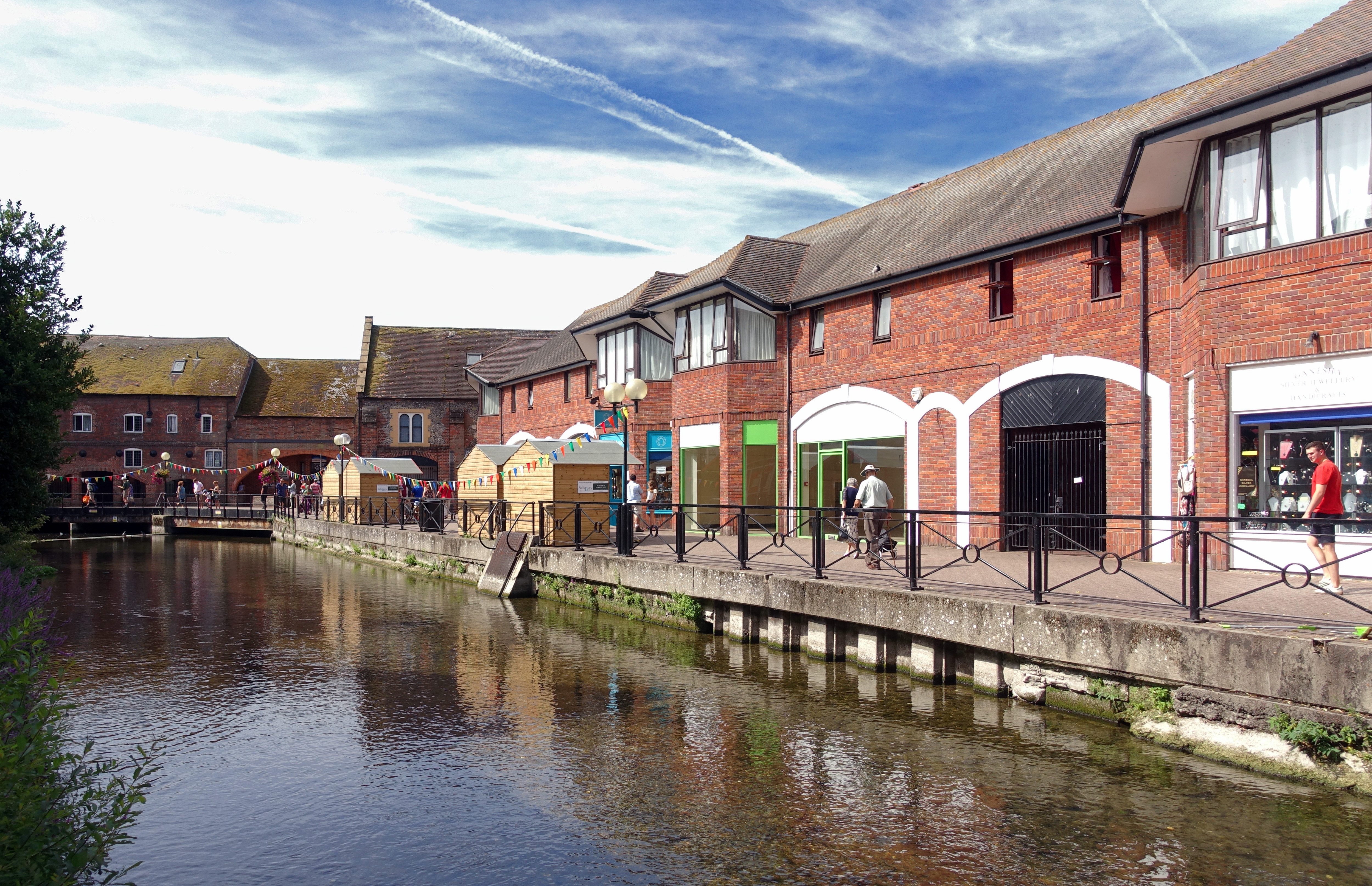 Avon river in Salisbury.